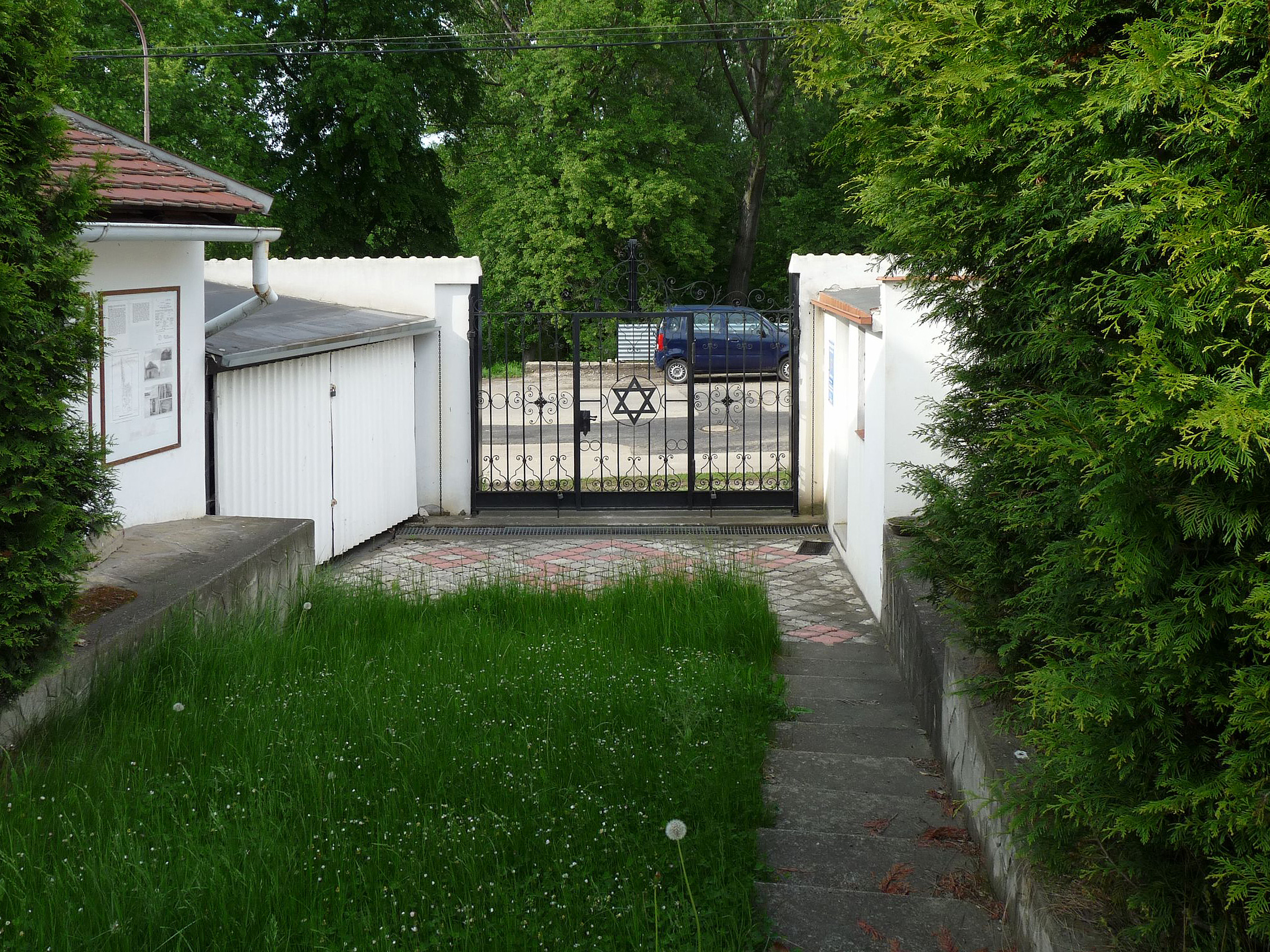 Jewish cemetery in the town of Kostelec nad Labem, Mělník District, Central Bohemian Region, Czech Republic